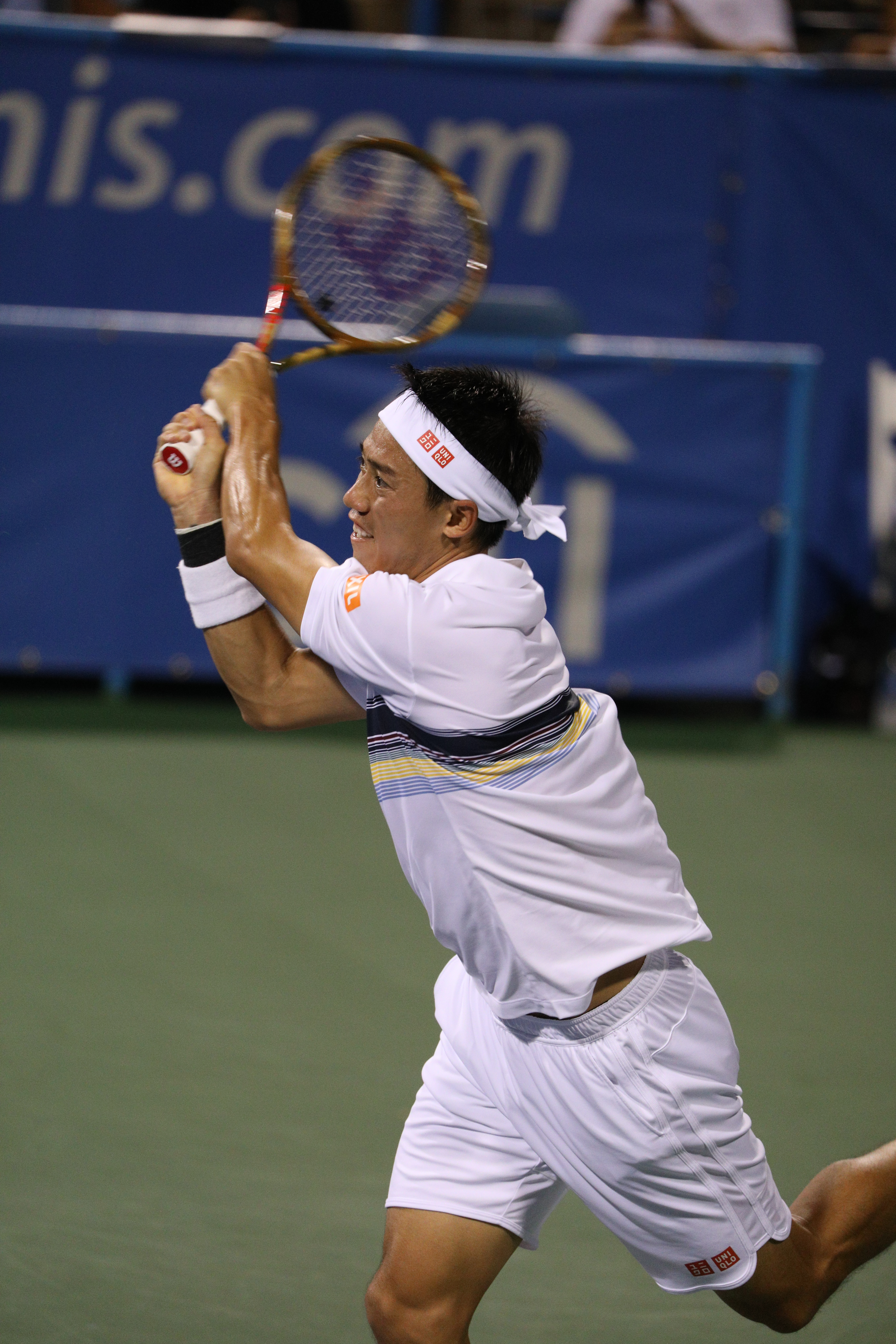 2018 Citi Open